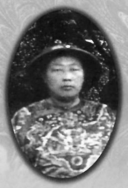 Portrait photograph of the Qing-Dynasty imperial grand eunuch An Dehai.